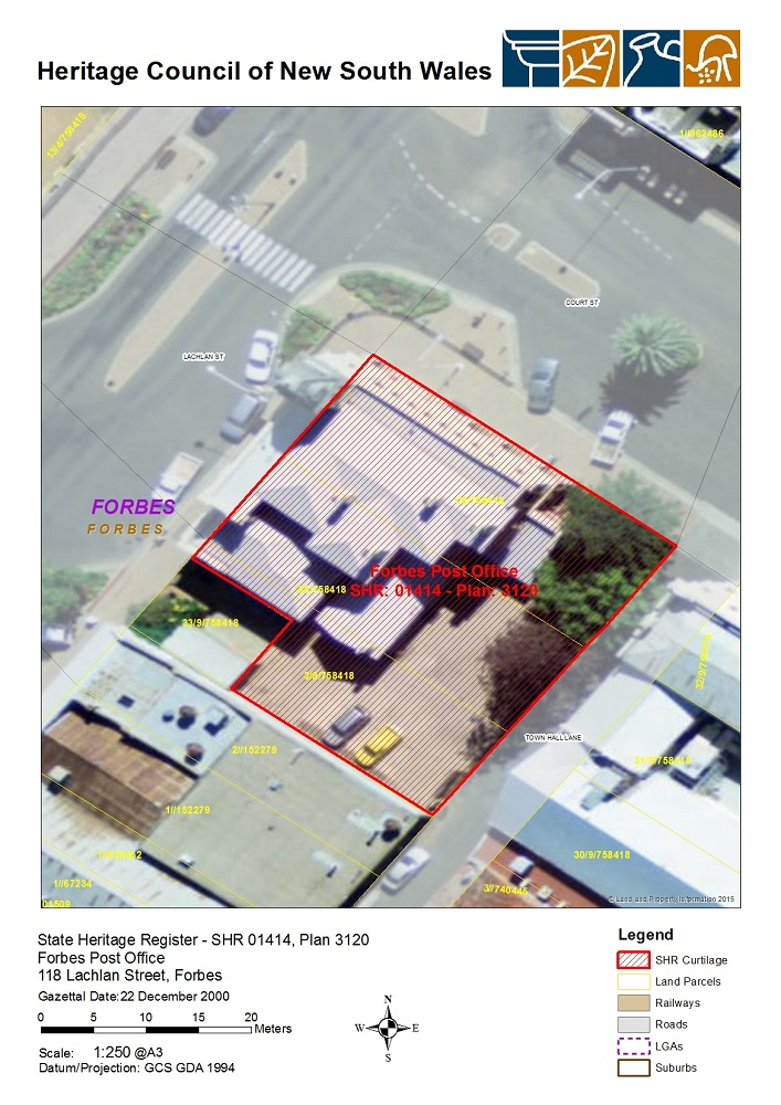 Forbes Post Office: SHR Plan 3120